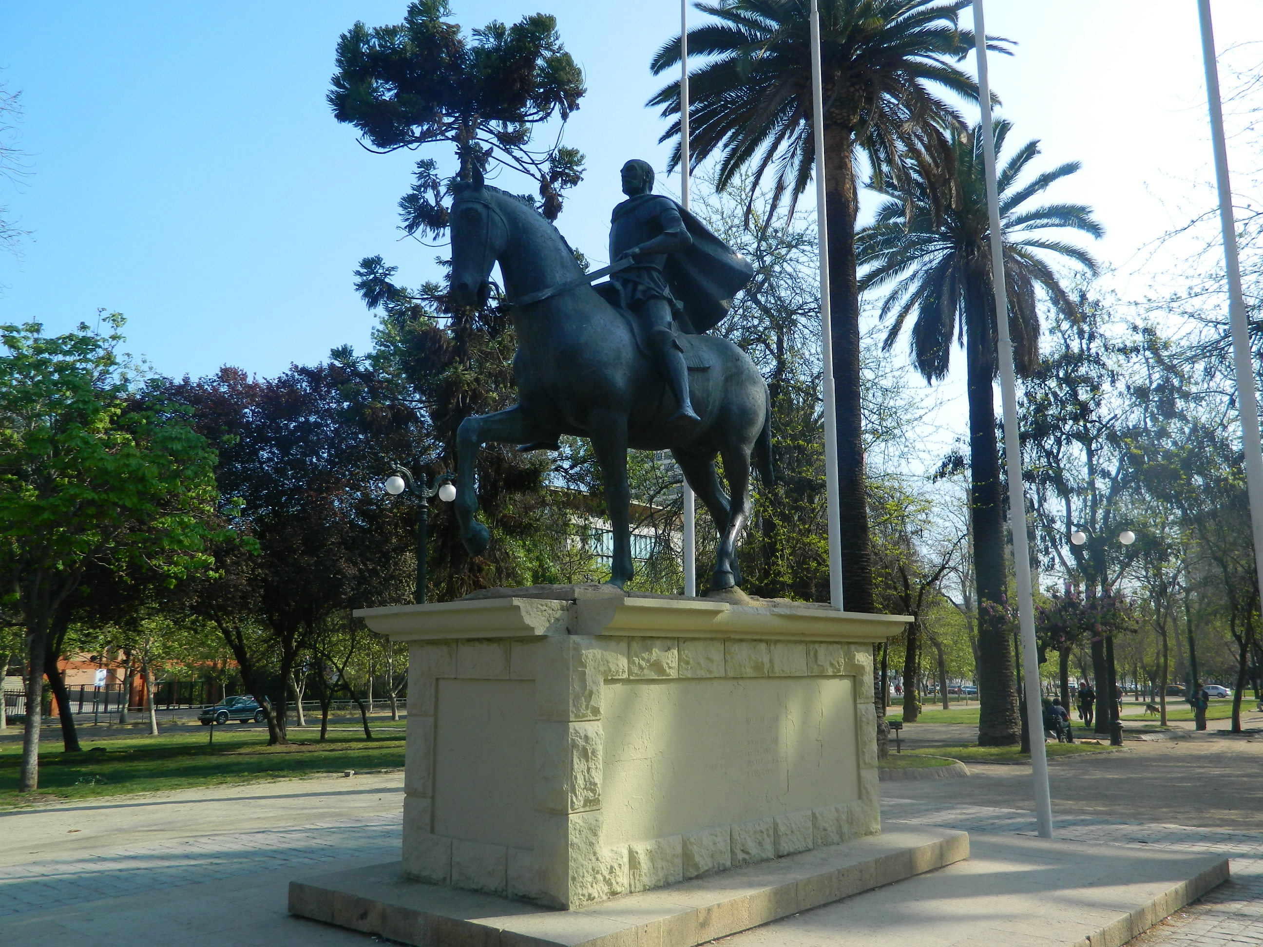 Estatua ecuestre de Diego de Almagro (1475-1538), descubridor de Chile. Obra de Joaquín García Donaire de 1954, realizada en los años 1980. Este monumento colocado en el parque Almagro de Santiago es una réplica del que está en la ciudad de Almagro, España. This is a photo of a national monument in Chile: 2017